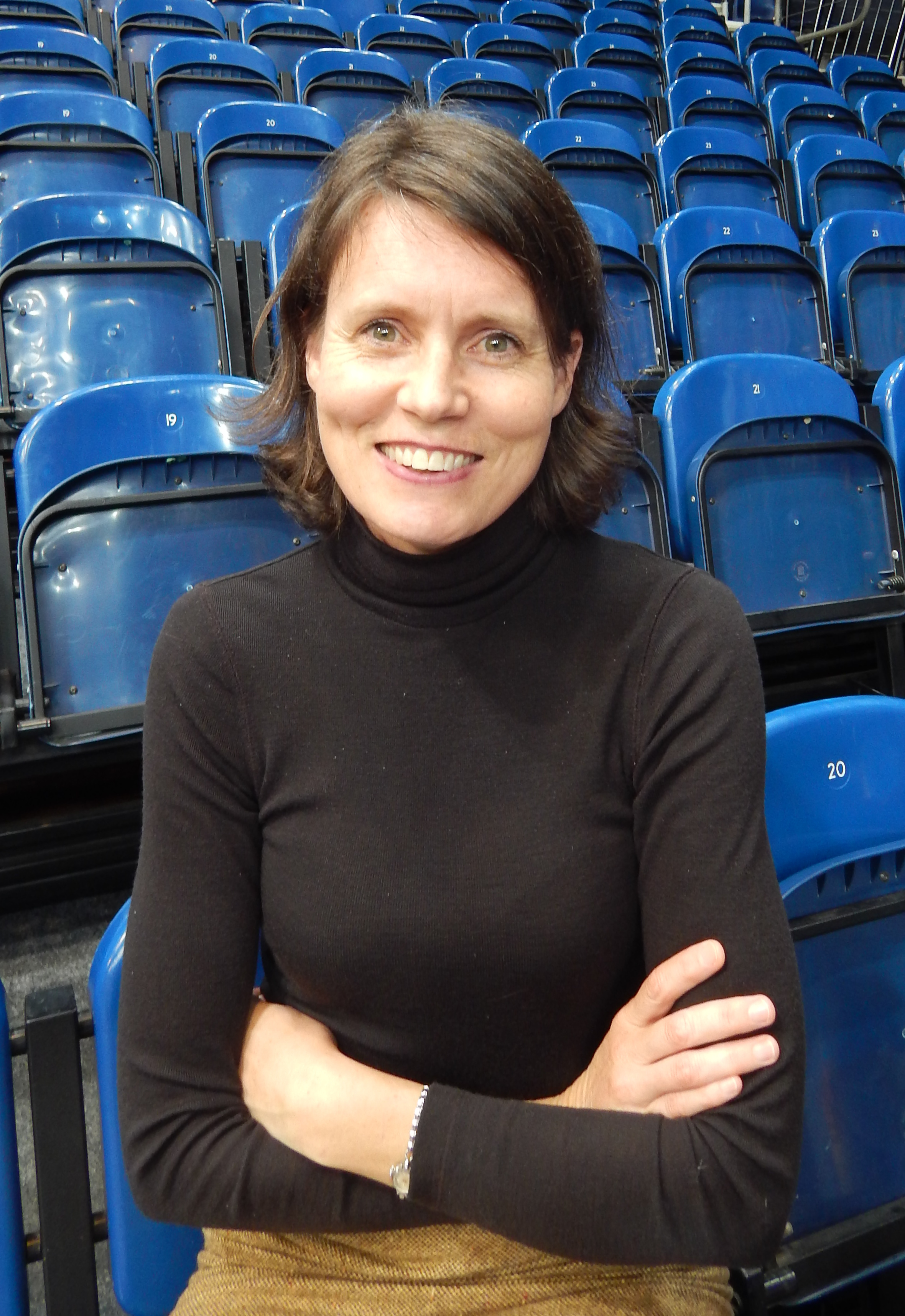 Lucille Bailie watches Jess Bibby break her record of 377 WNBL games at the AIS arena in Canberra on 14 November 2015